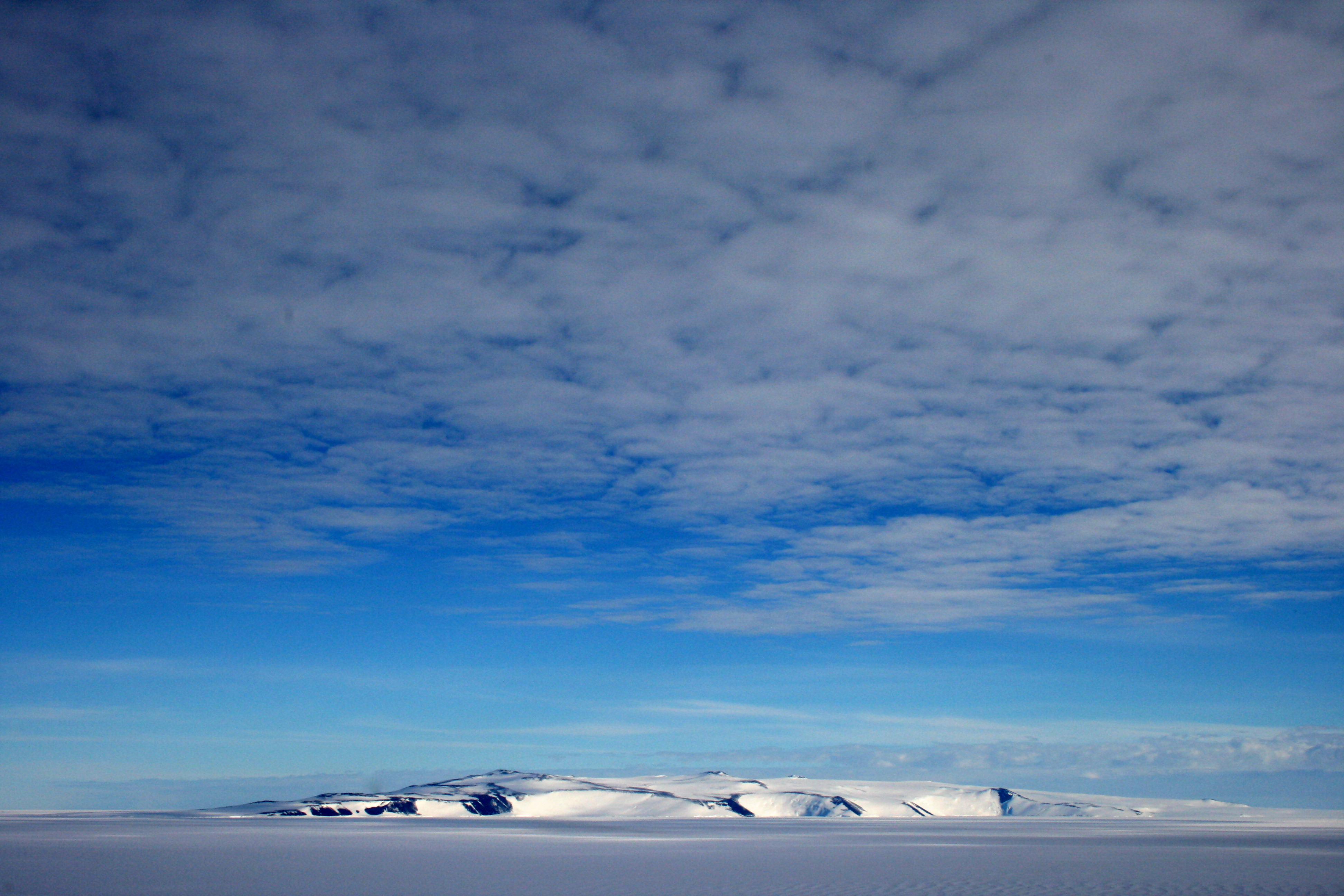 Antarctica, White Island